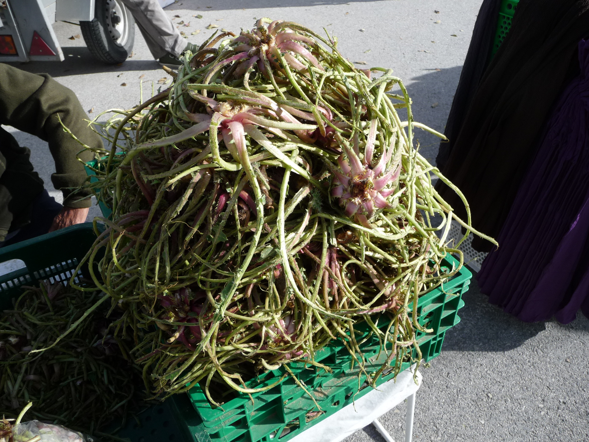 Scolymus hispanicus. Cut and ready to be cooked